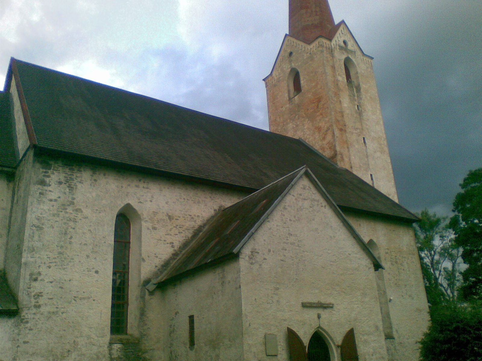 Järva-Peetri church